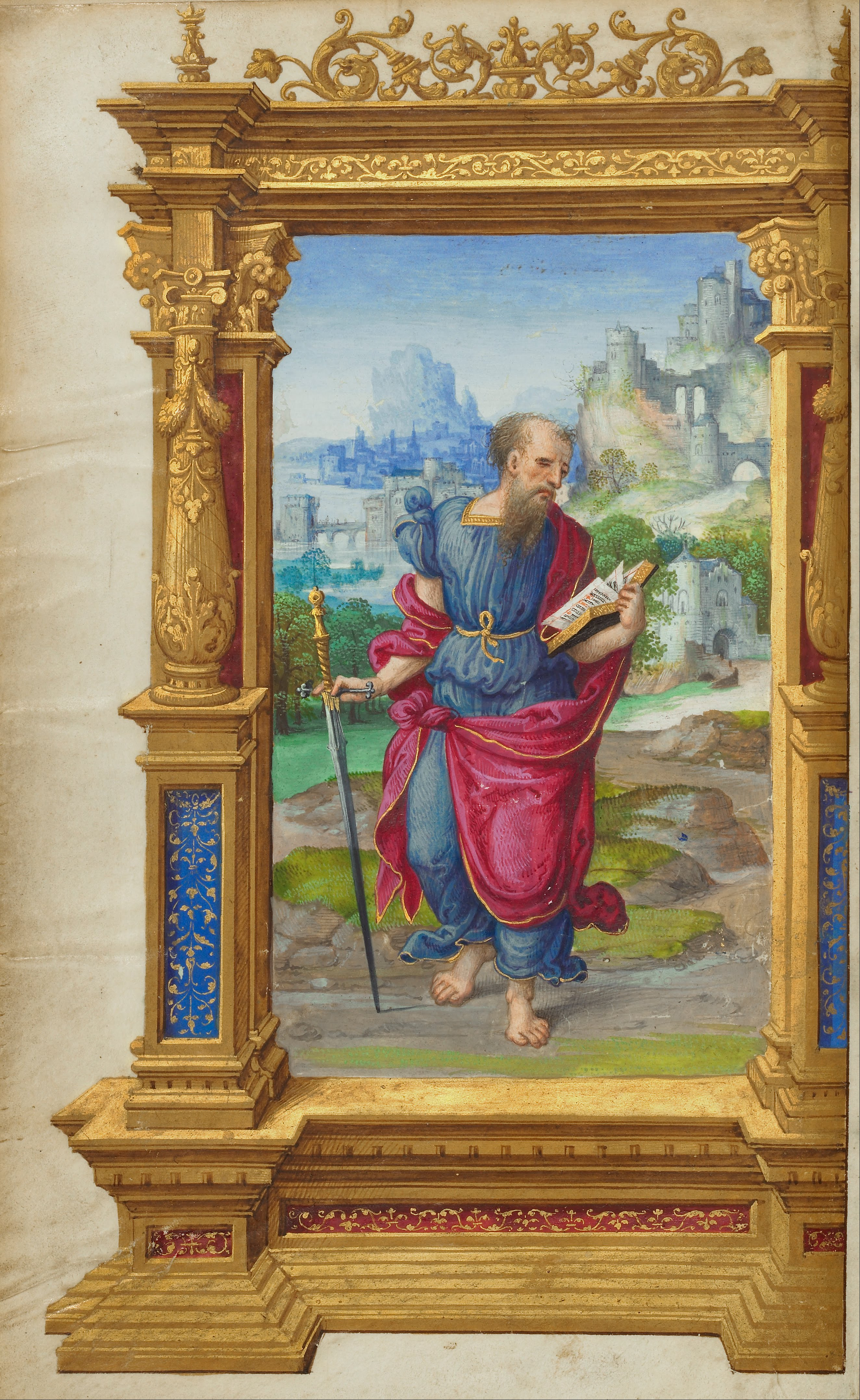 The apostle Paul stands reading an open book before a spacious setting of meandering hills dotted with architectural structures. Voluminous drapery cannot conceal his rather strong and muscular body. An elaborate architectural frame reminiscent of the frames of contemporary Italian altarpieces reinforces the saint's majestic presence. This small painting in a book achieves a monumentality usually associated with larger independent paintings hung on a wall. From the art of the Italian Renaissance, particularly that of Michelangelo, the Master of the Getty Epistles learned to make powerful figures like Paul. From Flemish masters, the artist learned to set his figures within a deep panoramic landscape.